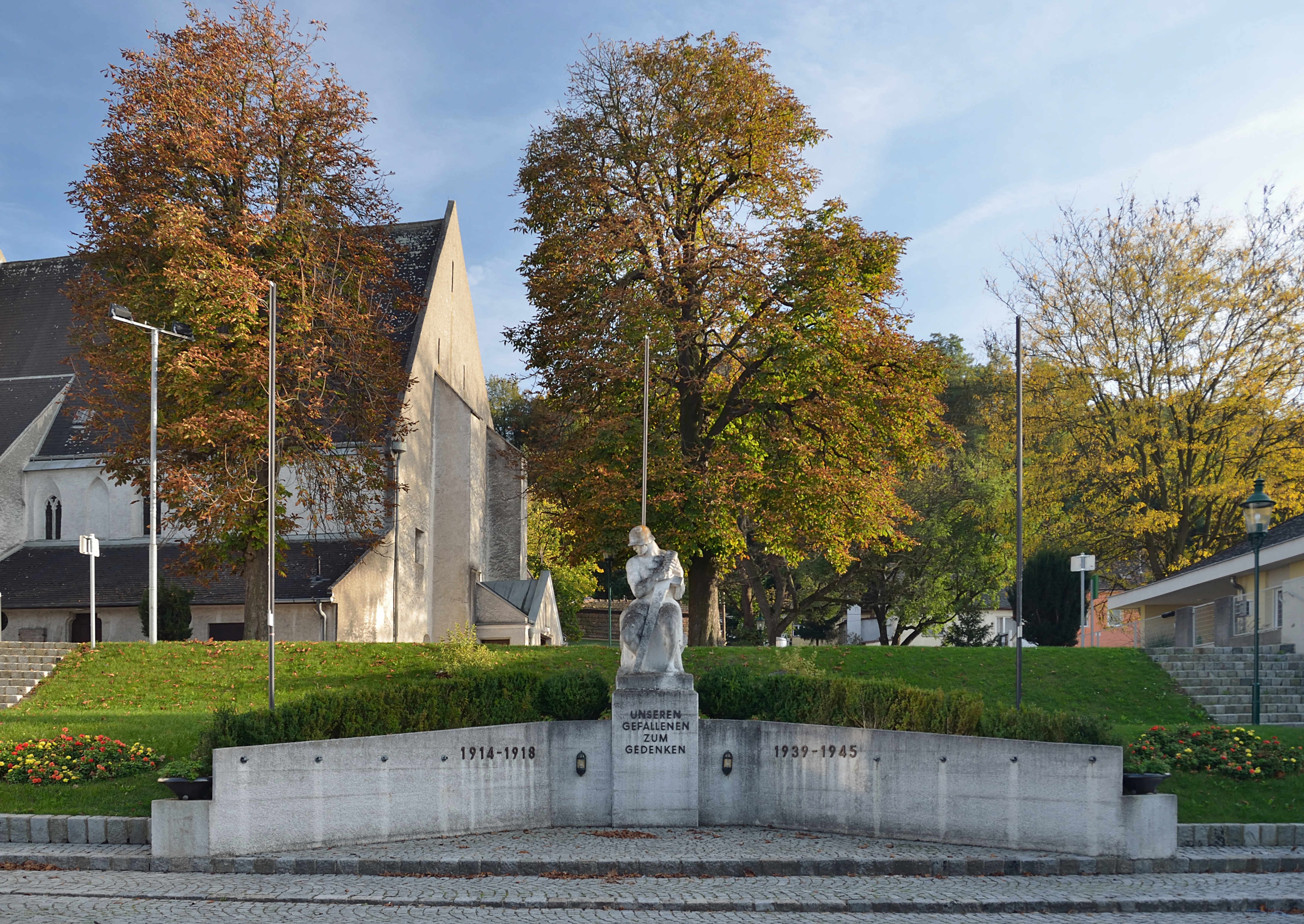 The war memorial at St. Andrä vor dem Hagental, municipality St. Andrä-Wördern. In the background parish church St Andrä vor dem Hagental.